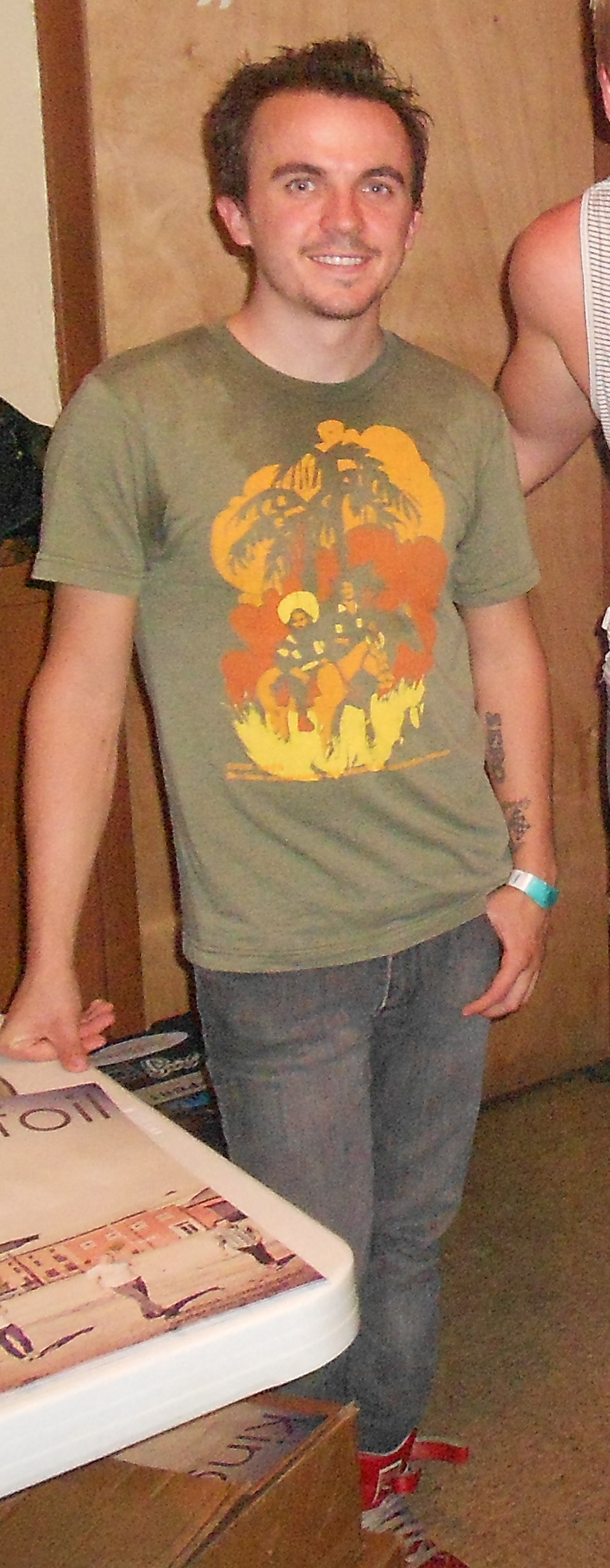 Frankie Muniz after performing with the band Kingsfoil in York, PA. I took this photo myself.